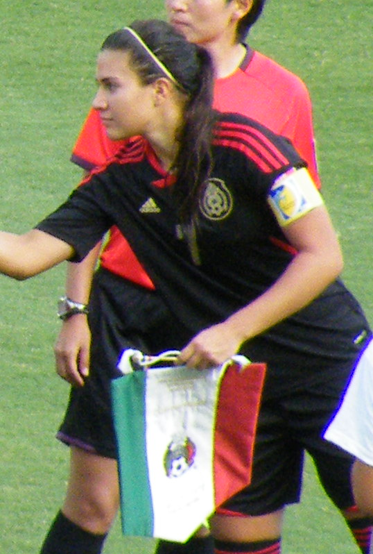 2012 FIFA U-20 Women's World Cup: NGA vs MEX